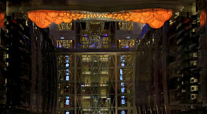 Racimo on Allure of the Seas in Turku, Finland by Grimanesa Amorós, 2011